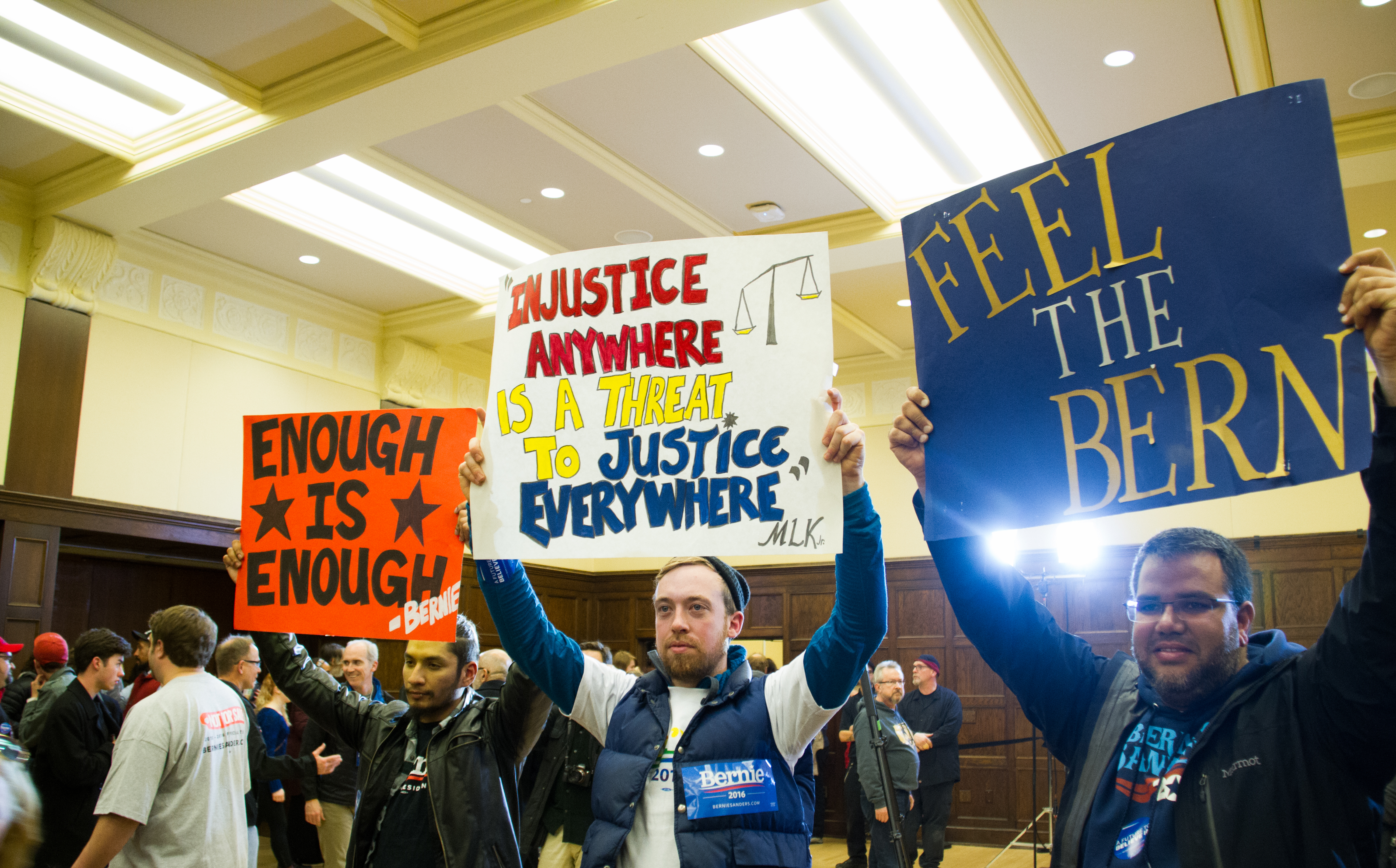 Democratic presidential candidate Bernie Sanders speaks during a "Canvass Launch" event in the Memorial Union on Jan 31, a day before the first caucus of the presidential race. Sanders spoke to a crowd of supporters and volunteers about healthcare, college debt, and global warming.